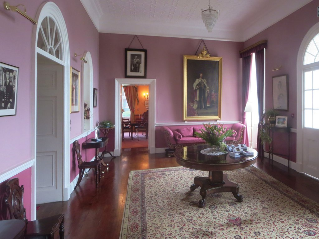 Guests arriving at Plantation House (1792) , the governor's official residence on St Helena Island, pass through this reception room.